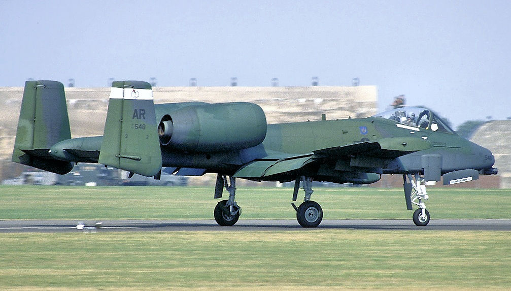 509th Tactical Fighter Squadron - Fairchild Republic A-10A Thunderbolt II - 76-0548.jpg